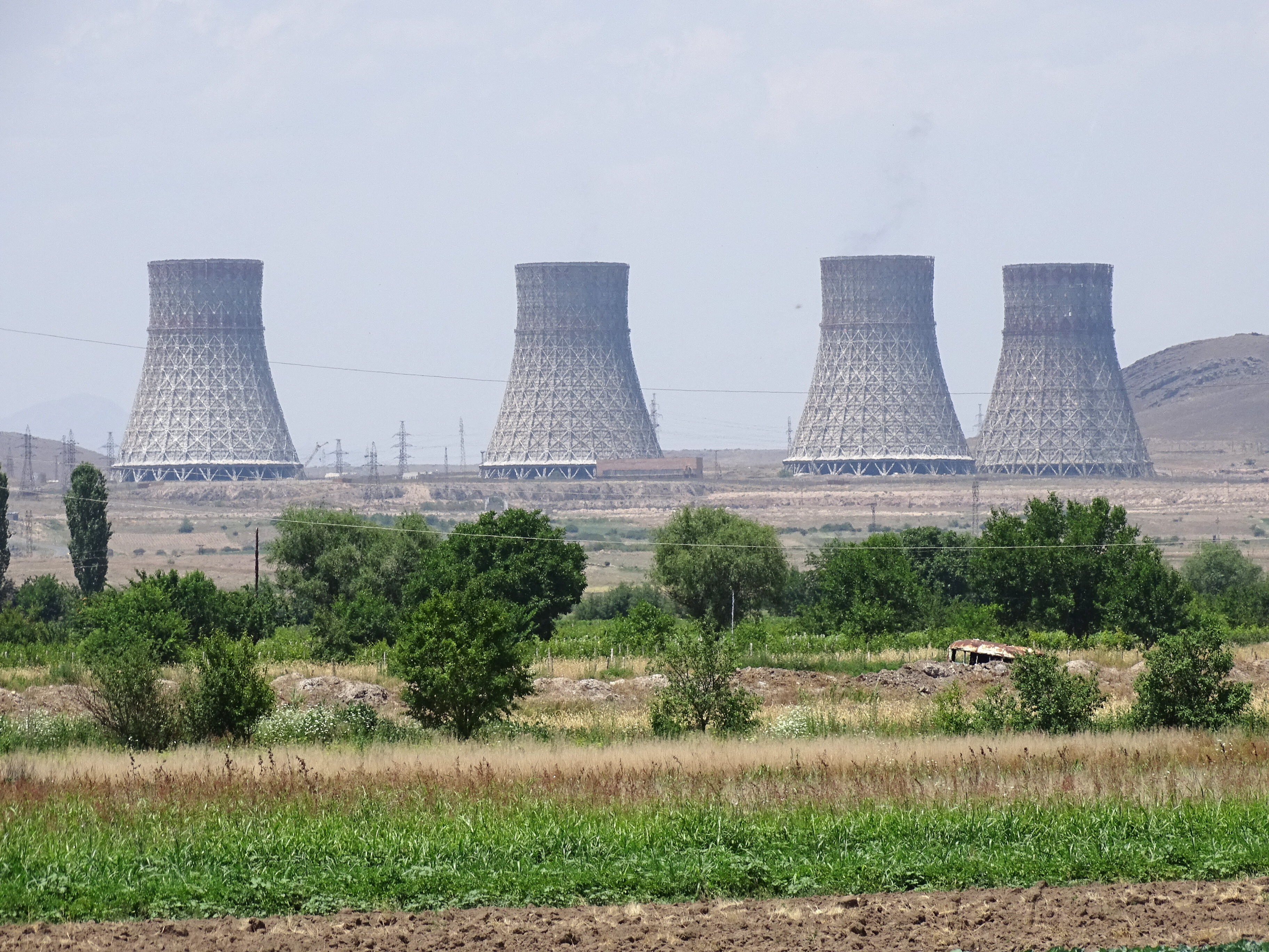 Metsamor nuclear power plant, cooling towers (Armenia, June 2015)